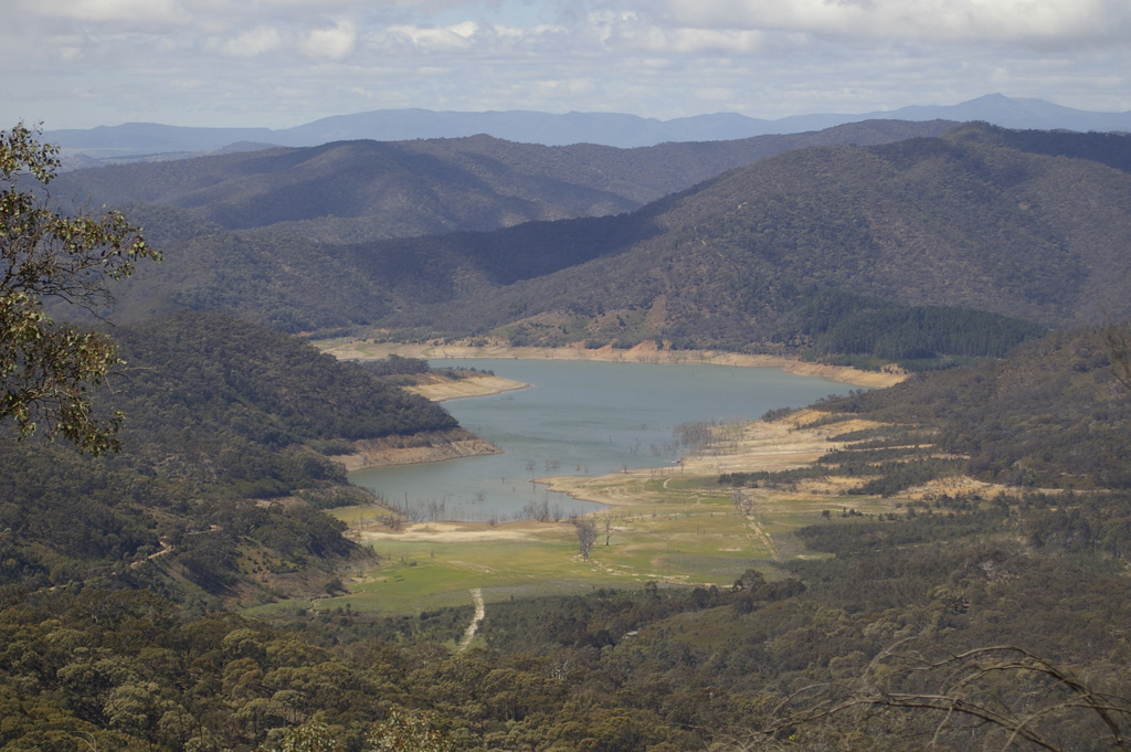 Taken by me (Micah Powell) on 8th October 2006